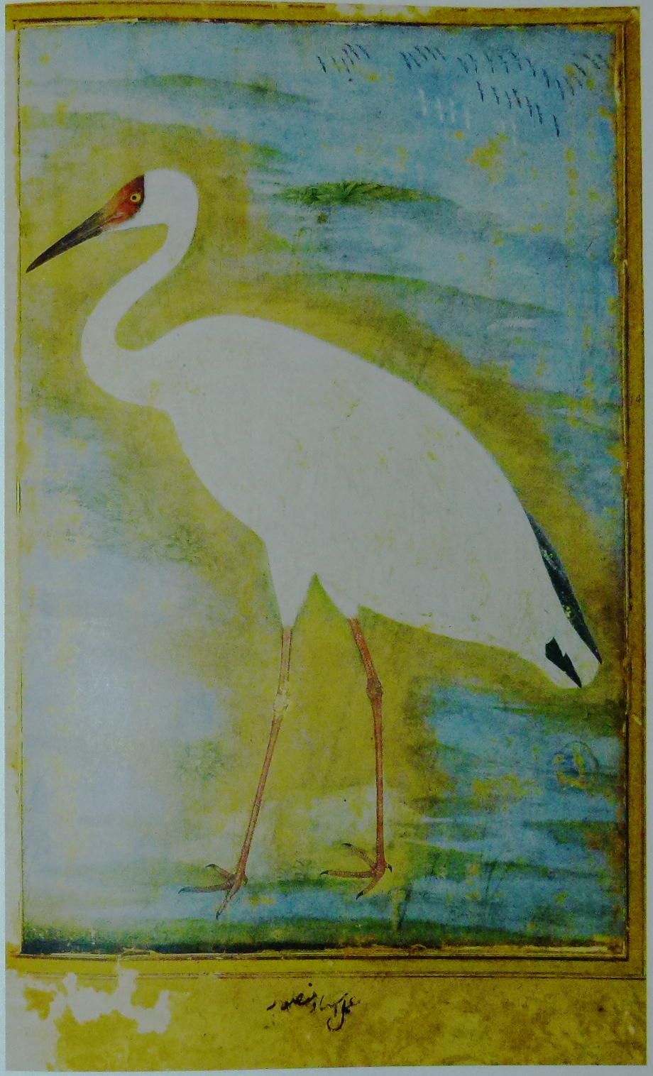 Siberian crane (Grus leucogeranus) painting by Ustad Mansur. Indian Museum Calcutta. No R32.